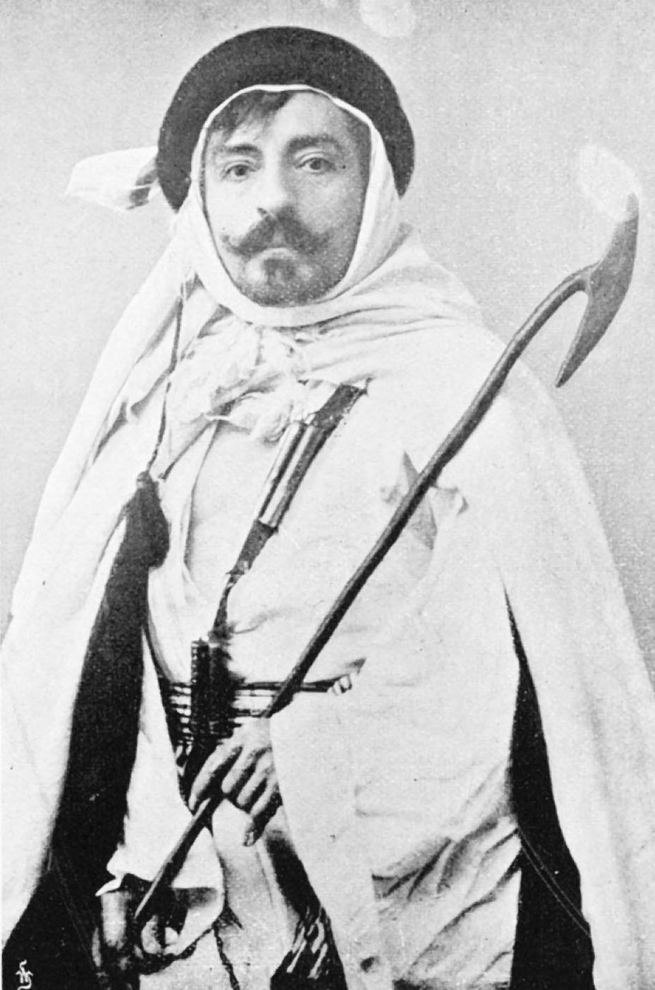 Pierre Loti (1850-1923), french author.